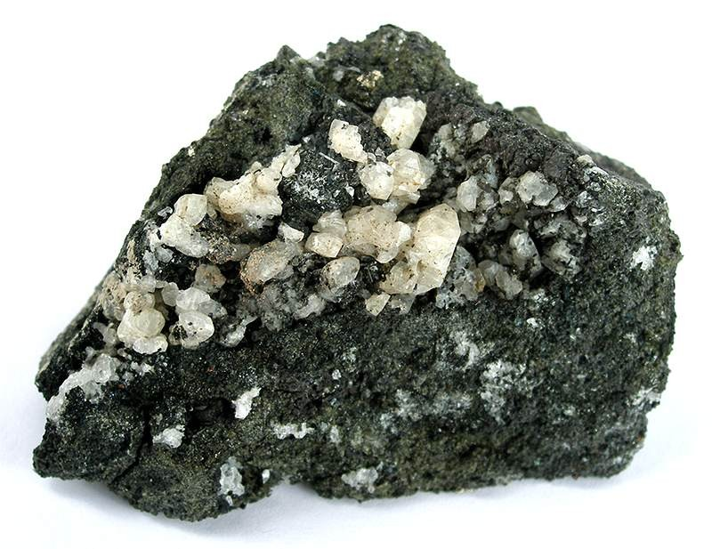 Anorthite Locality: Monte Somma, Somma-Vesuvius Complex, Naples Province, Campania, Italy (Locality at ) Size: 6.9 x 4.1 x 3.8 cm. Among the least common of the plagioclase feldspar family, this specimen of anorthite is significant because it is from the TYPE LOCALITY and has isolated sharp crystals nestled in basaltic vugs. The anorthite crystals are surprisingly lustrous, somewhat translucent and white. Elongated, textbook-like crystals reach 1.0 cm in length and form a super color contrast with the host black basalt.